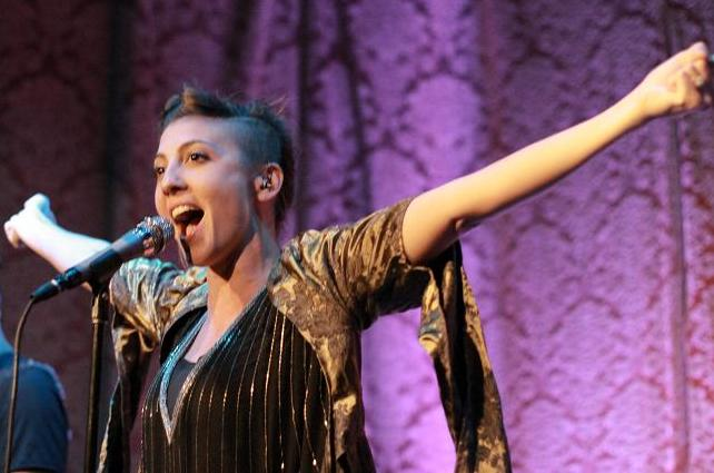 Lead vocalist Aja Volkman of the rock group Nico Vega at the Sainte Rocke.